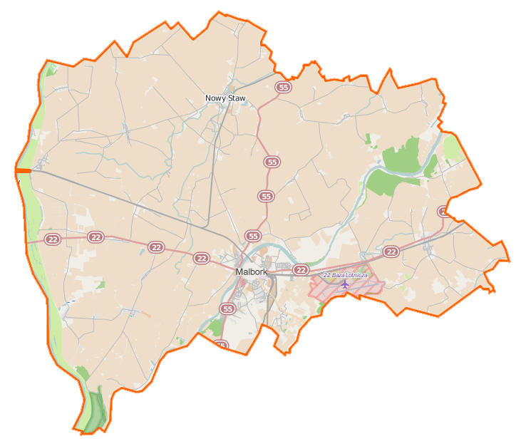 Map of Powiat malborski, Poland This map of Powiat malborski was created from OpenStreetMap project data, collected by the community. This map may be incomplete, and may contain errors. Don't rely solely on it for navigation.